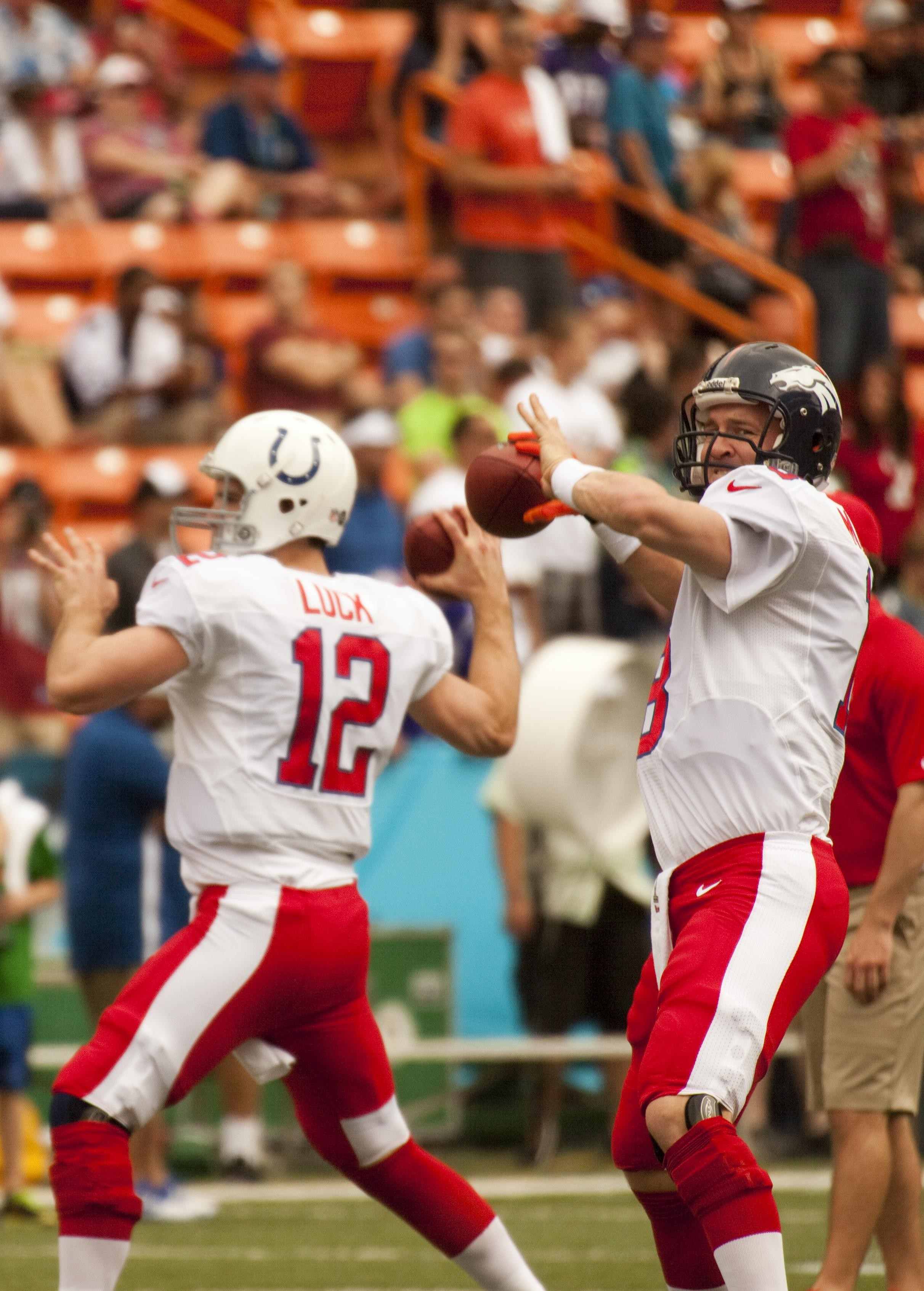 Denver Broncos quarterback Peyton Manning warms up with rookie Pro Bowler and Indianapolis Colts quarterback Andrew Luck at Aloha Stadium before the 2013 NFL Pro Bowl, Jan. 27.